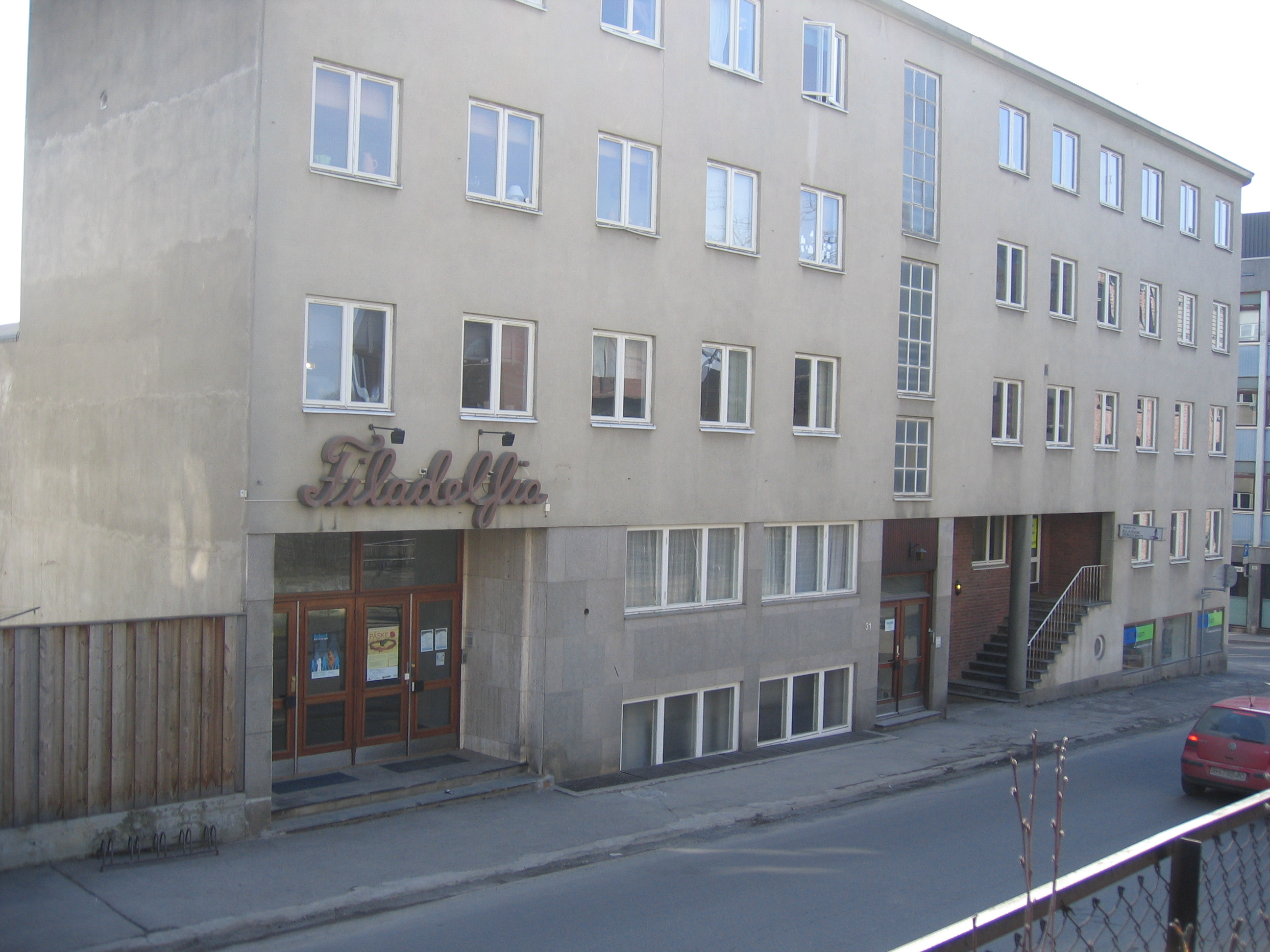 Filadelfia in Hamar, a part of the Evangelical Lutheran Free Church of Norway.